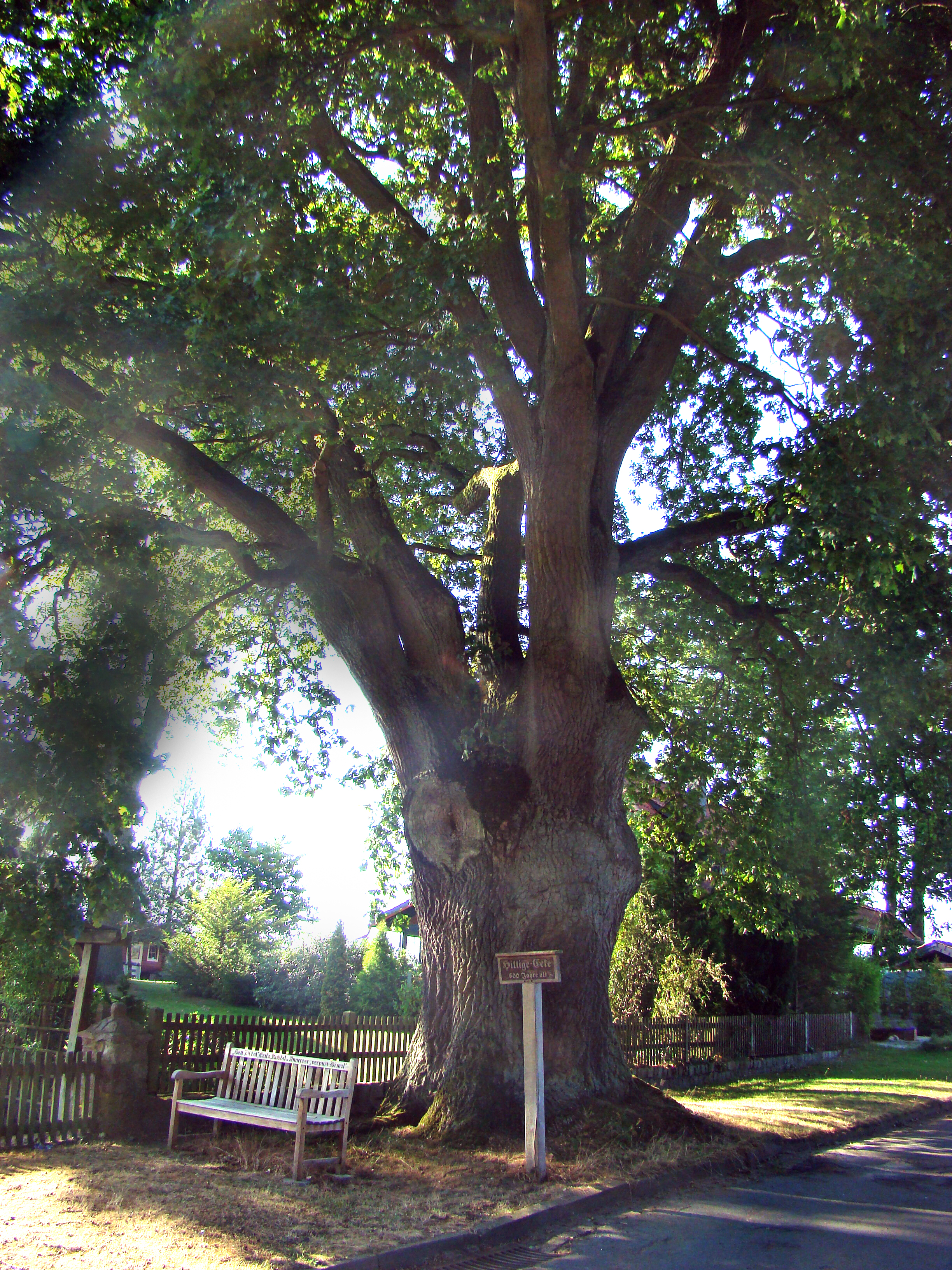 The "Holy Oak" (Hillige Eeke), which is over 600 years old, at Müden (Örtze), Lower Saxony, Germany